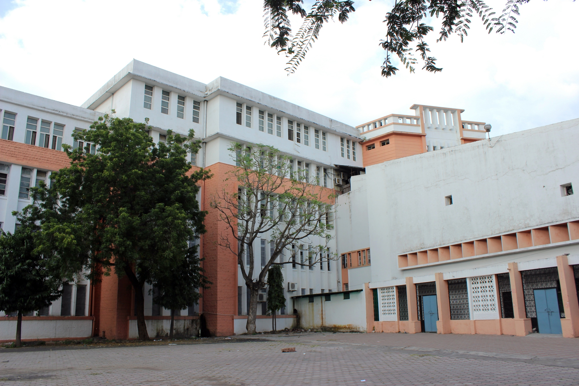 Gandhi Medical College Bhopal South Face